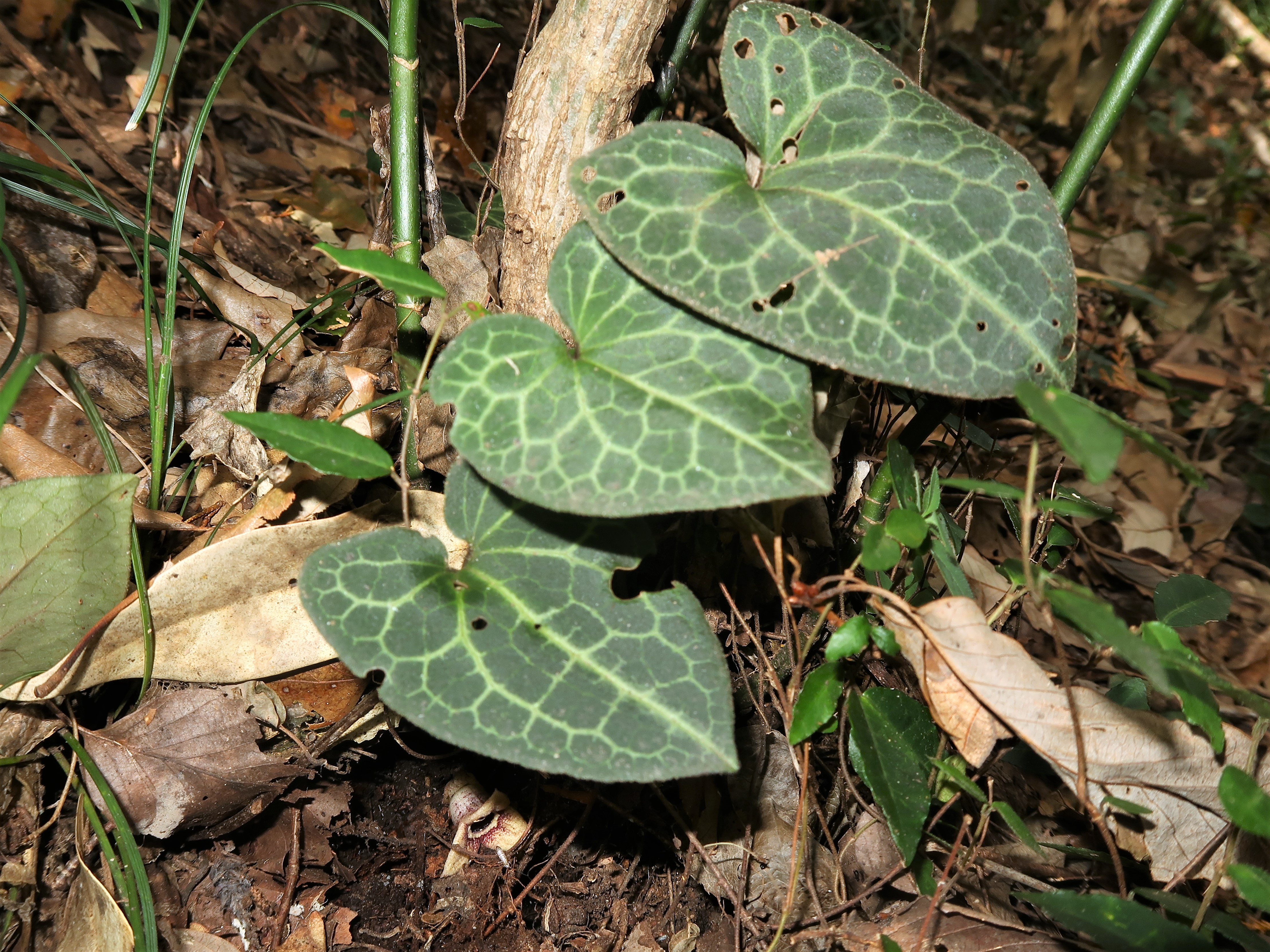 Asarum nipponicum, Miura Peninsula, Kanagawa pref., Japan